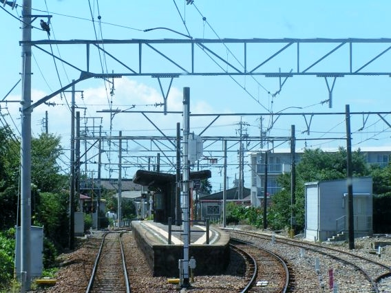 Nishiura Station platforms, Gamagori, Aichi, Japan